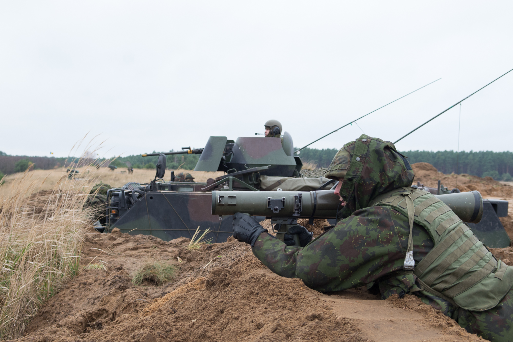 Steadfast Jazz 2013 Estionian soldier are keeping surveillance with a M113